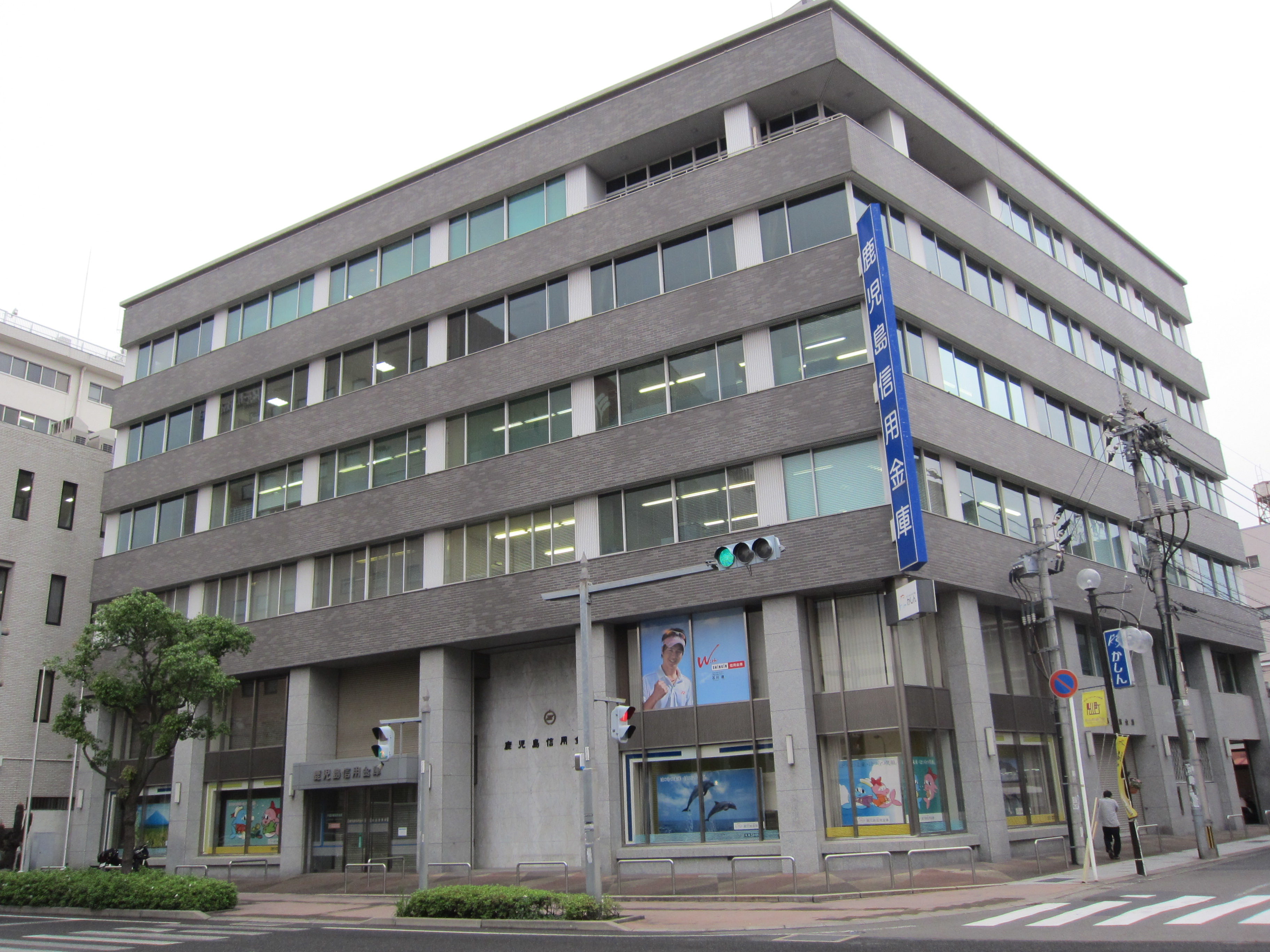 Kagoshima Shinkin Bank